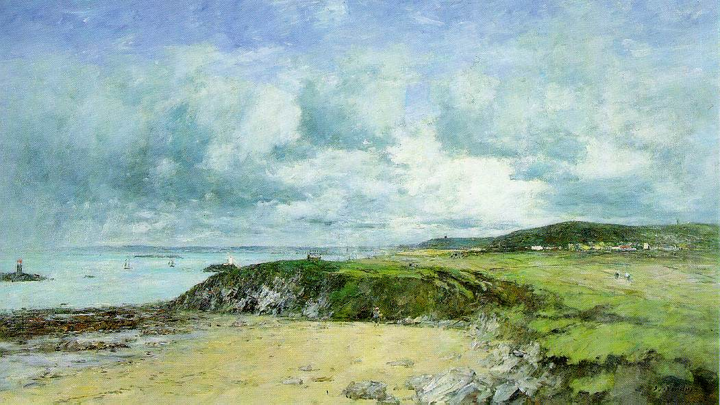 View south-east from the Grève de l'Isnain. The nearest hill is the Pointe du Sémaphore.